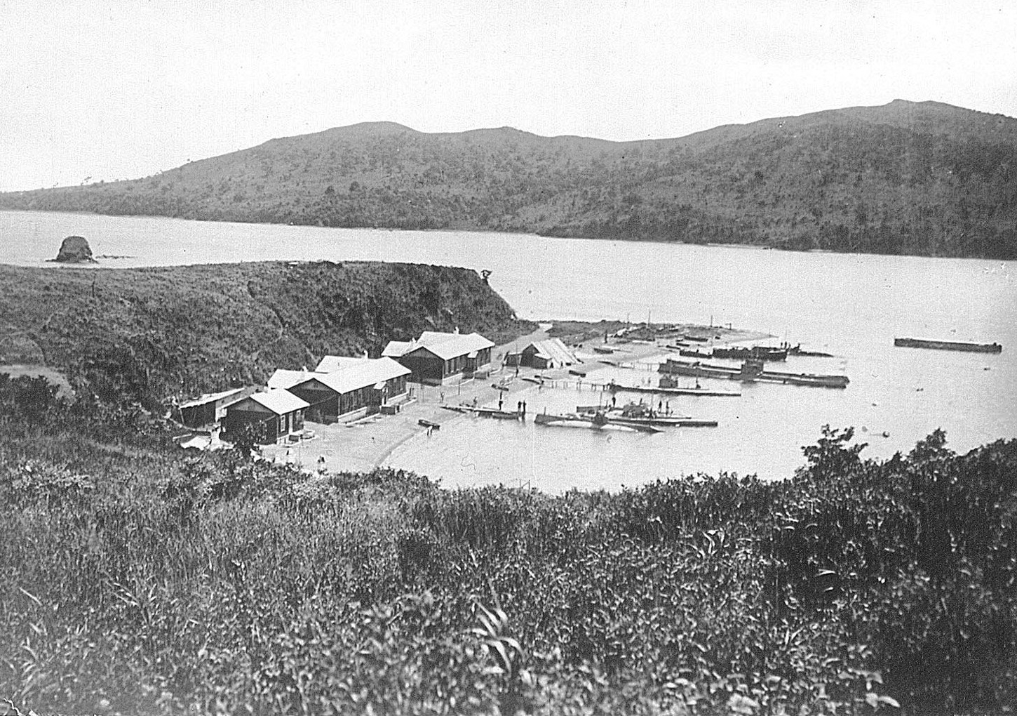 The Imperial Russian Siberian Military Flotilla in the Razboynik Bay in the Strelok gulf.